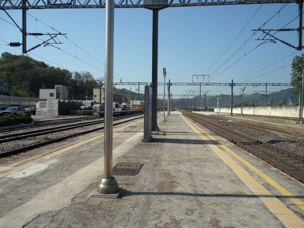 Platform of Sojeong-ri Station